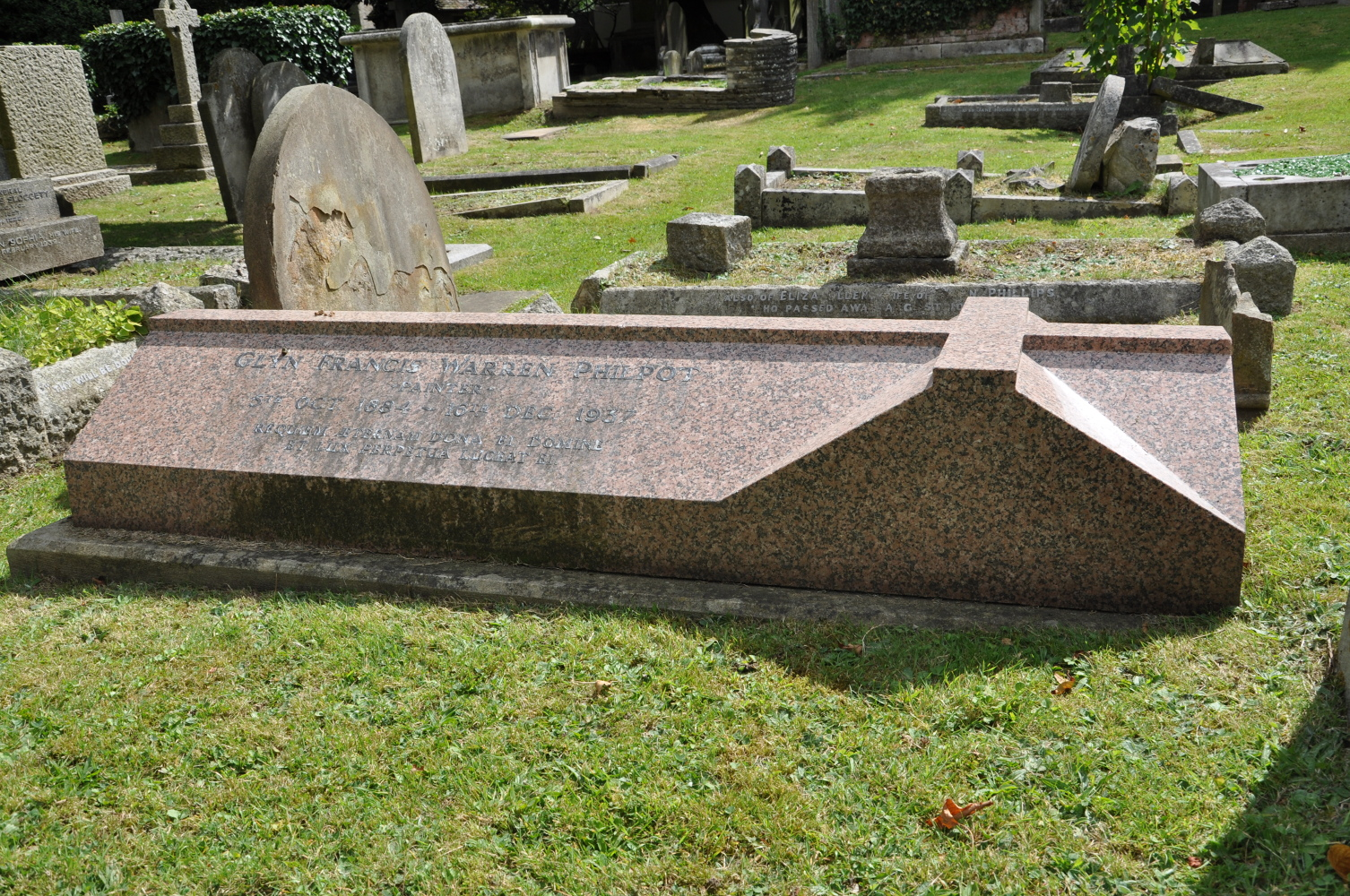 Glyn Philpot's grave in Petersham, St Peter's Churchyard. On the tomb the name Glyn Francis Warren Philpot. See Peter Matthews, Who's Buried Where in London (Bloomsbury Publishing Plc, 2017), p. 242.